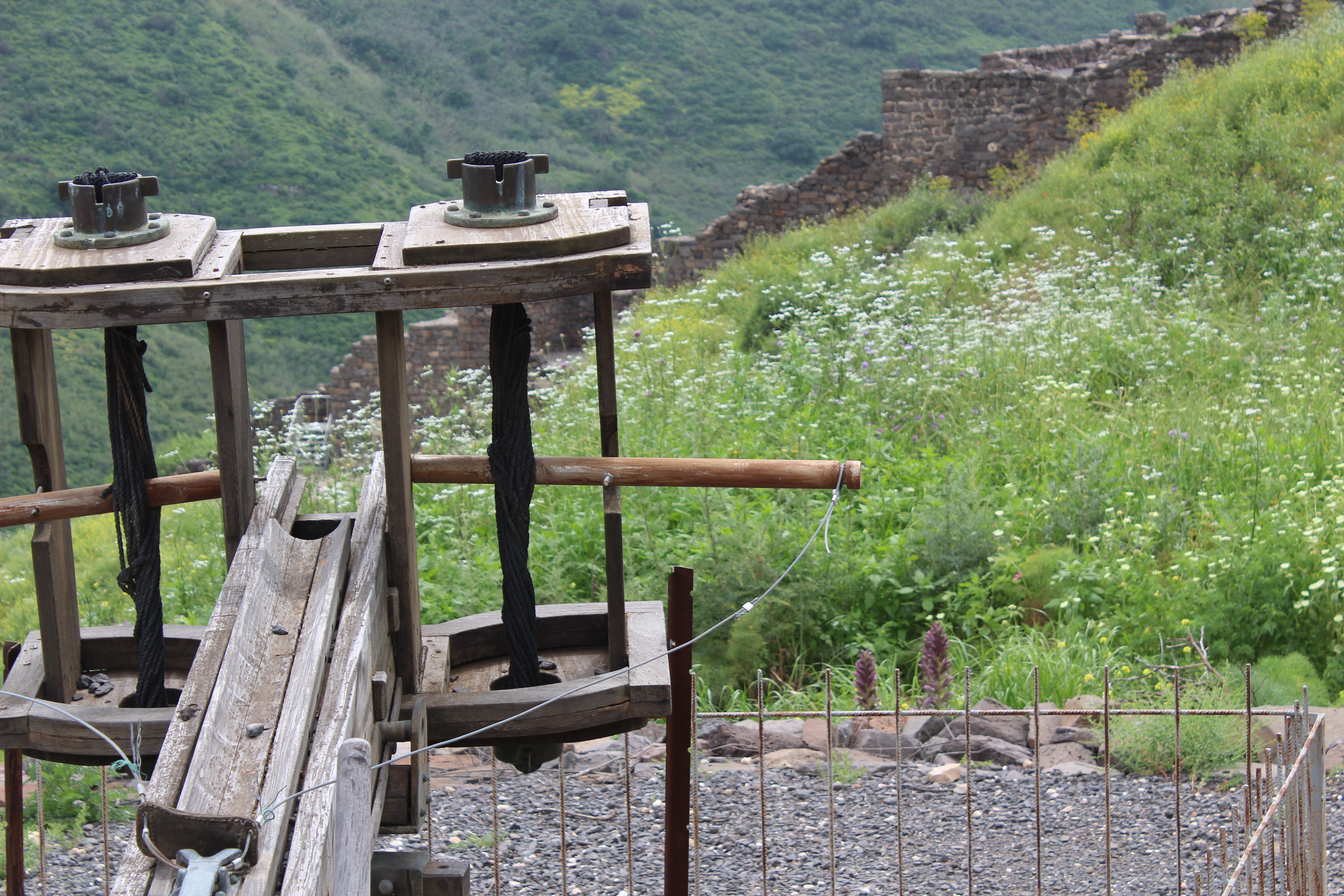 Reconstructed siege engine at Gamla, Israel